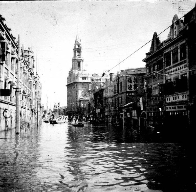 1939 flood in Tientsin (Tianjin) 中文（中国大陆）: 1939年天津水灾时的旭街